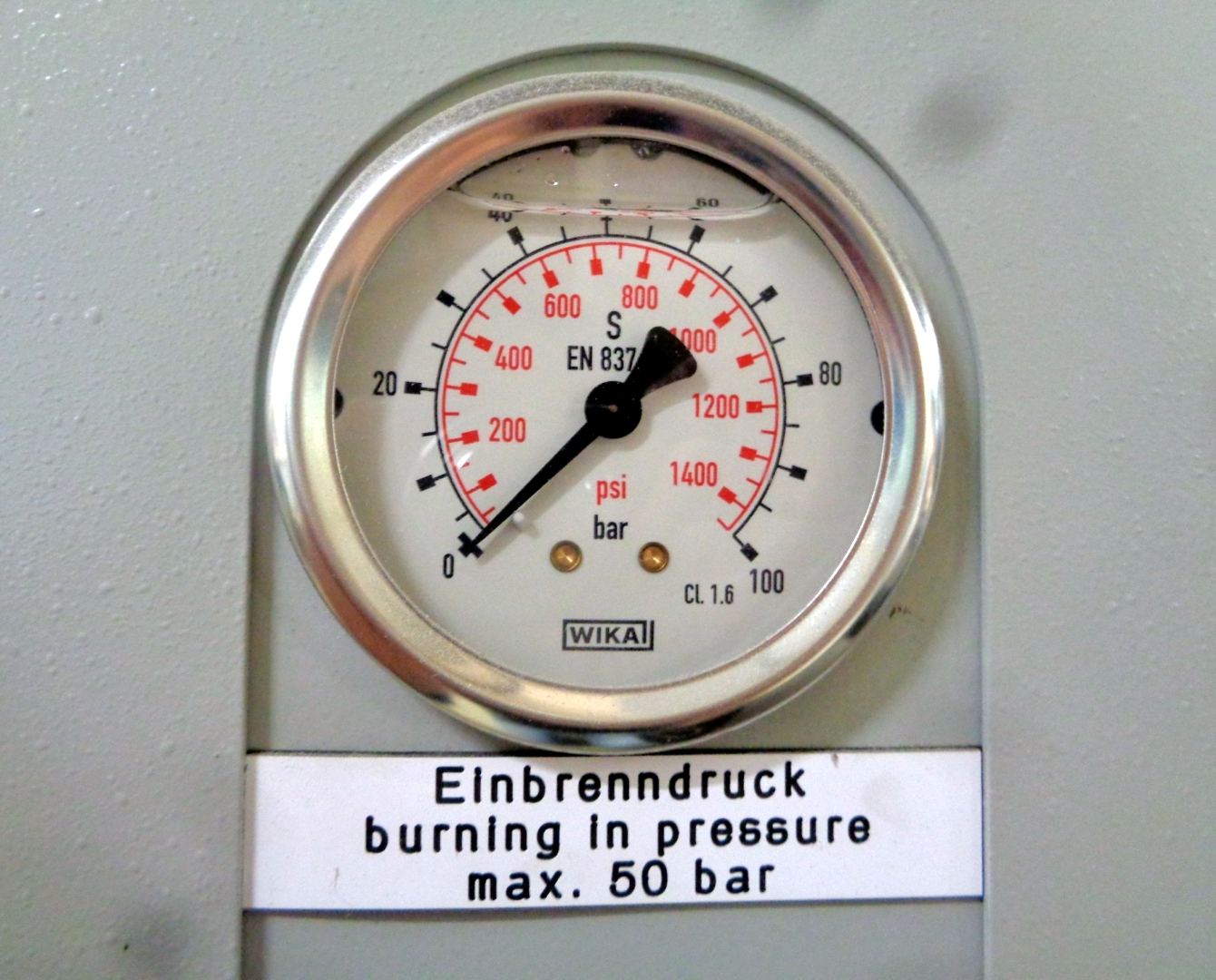 Barometer made in WIKA factory.